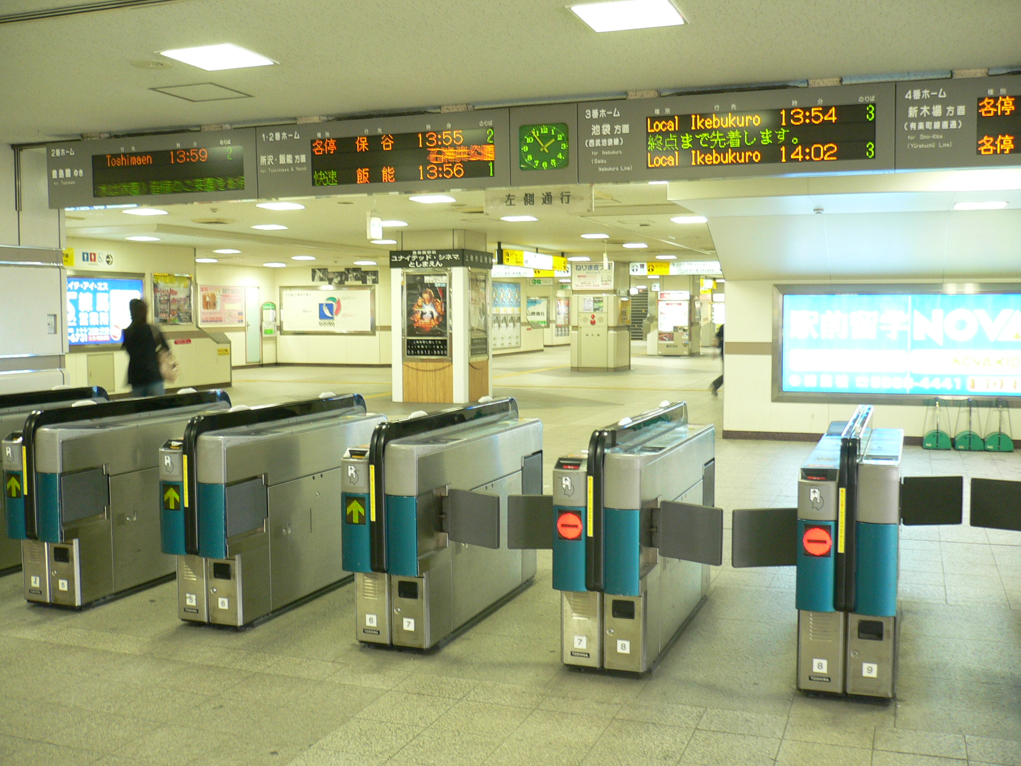 Nerima Station(練馬駅),Nerima W, Tokyo.